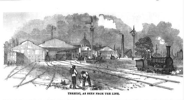 London Bridge stations c.1853. The Brighton Railway station is to the left and the South Eastern on the right